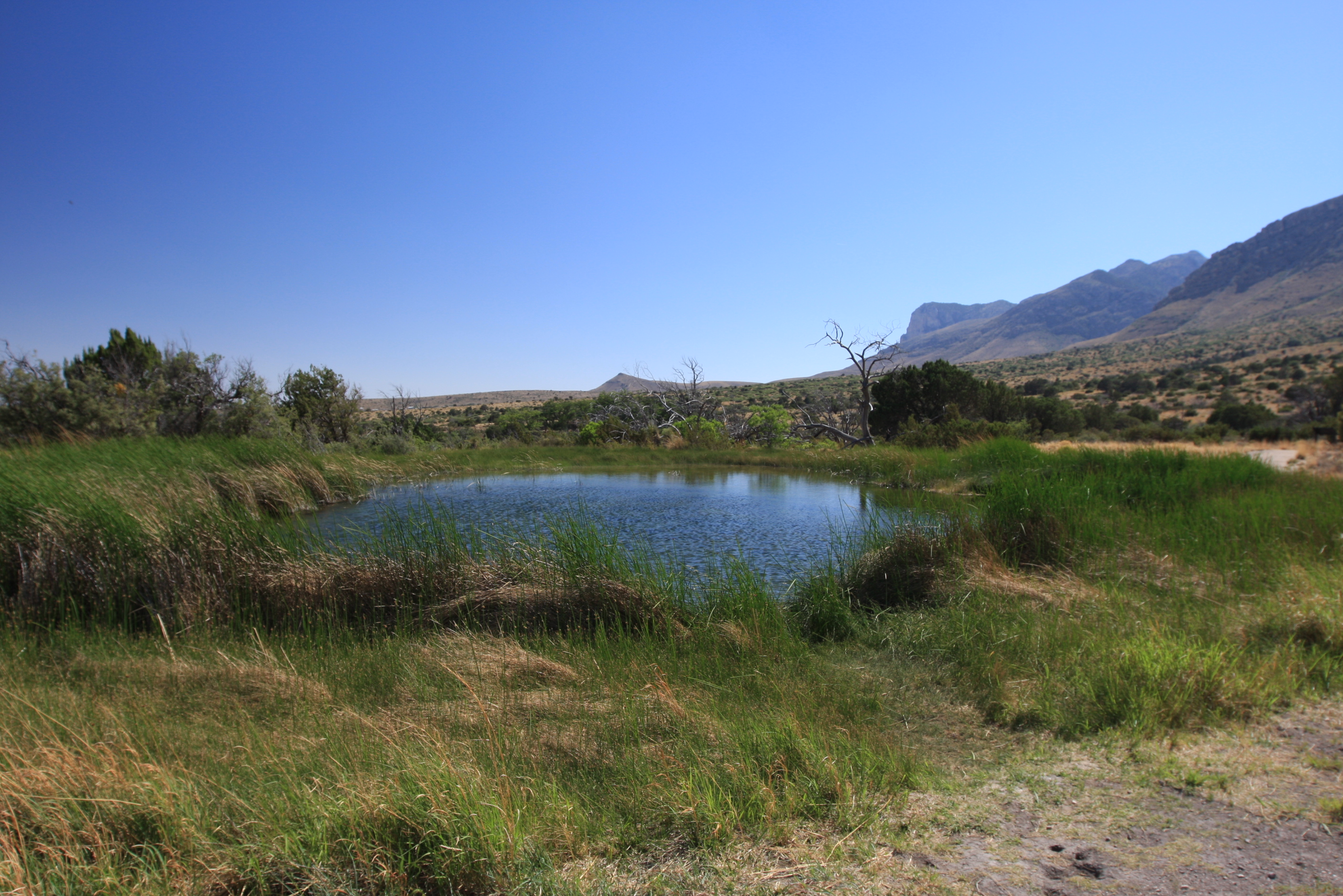 Manzanita Spring flows steadily year-round. It is an important water source for the desert surrounding the Guadalupe Mountains. Taken at Manzanita Spring, the Smith Spring Trail, Frijole Ranch Cultural Museum, Guadalupe Mountains National Park, Texas, USA.